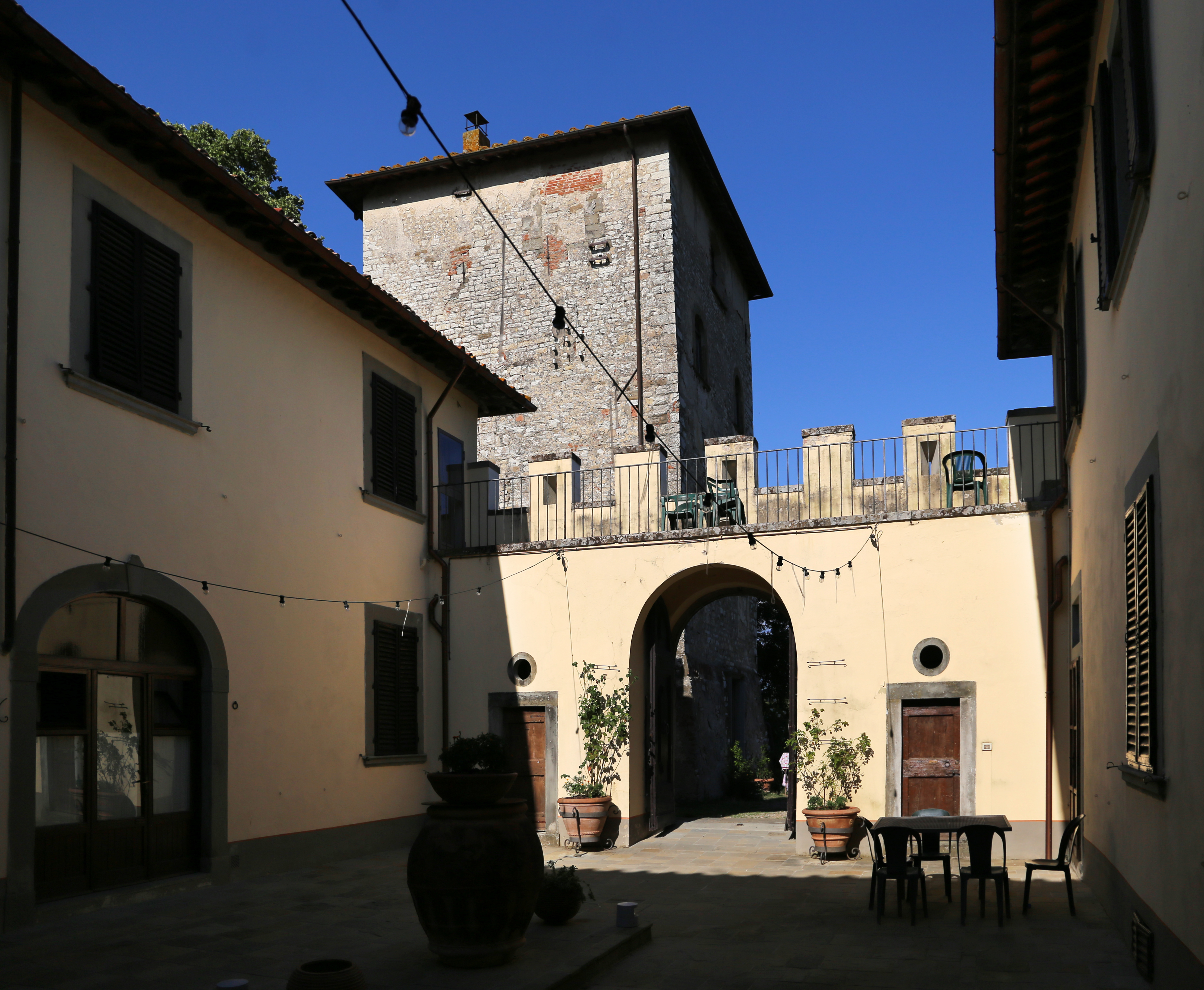 Villa of Castiglionchio